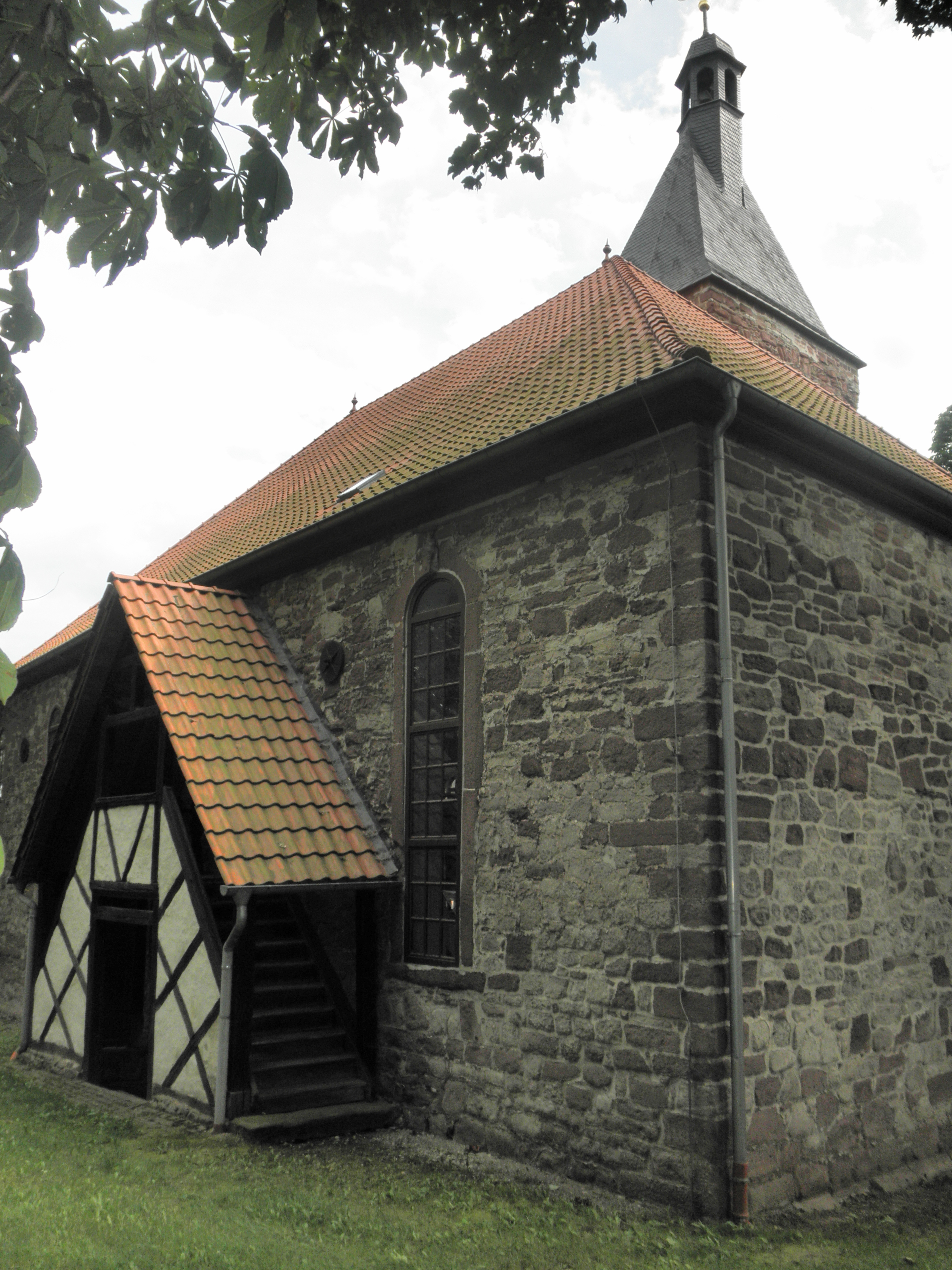 Church in Badra in Thuringia